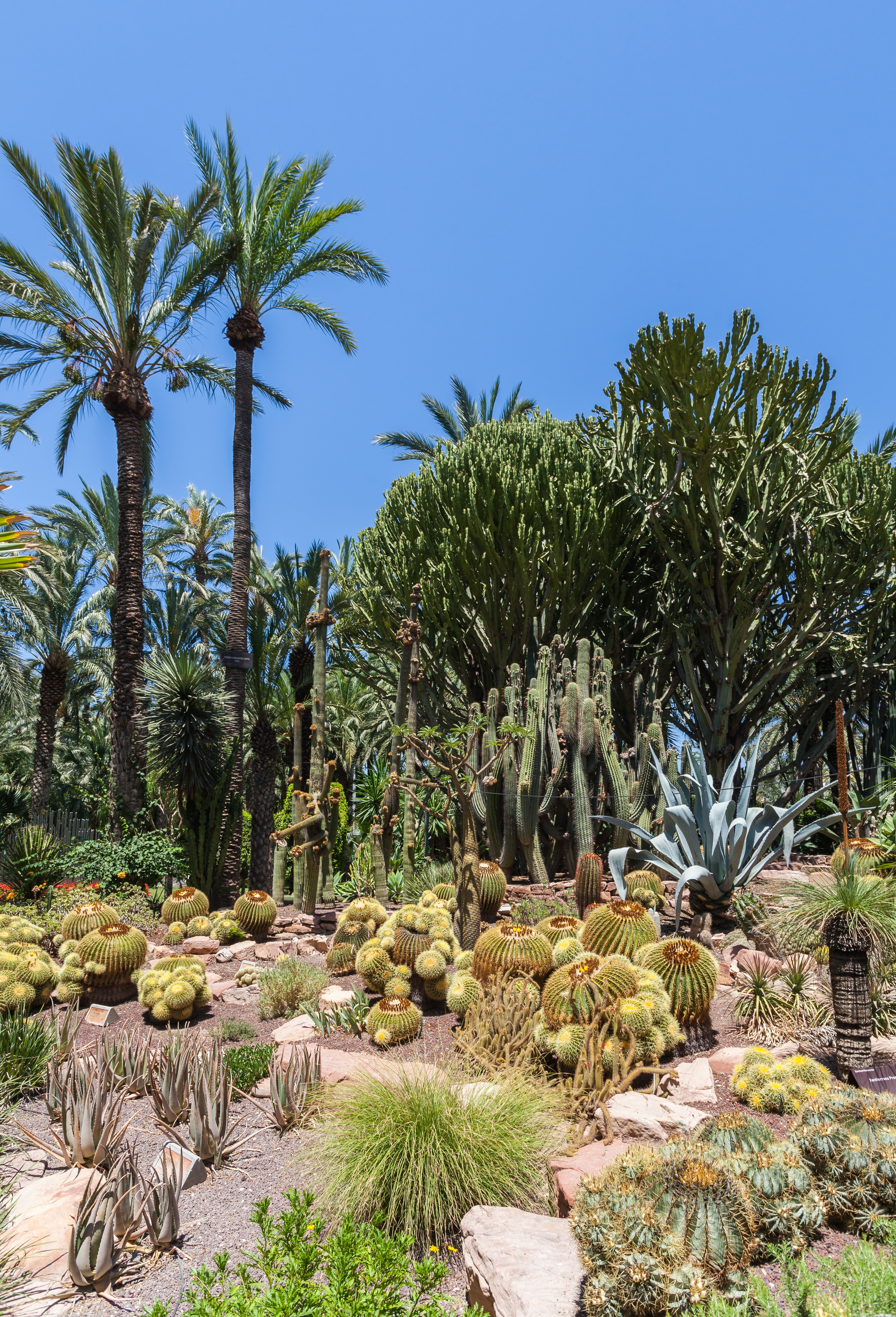 Huerto del Cura (Priest's vegetable garden), Elche, Spain